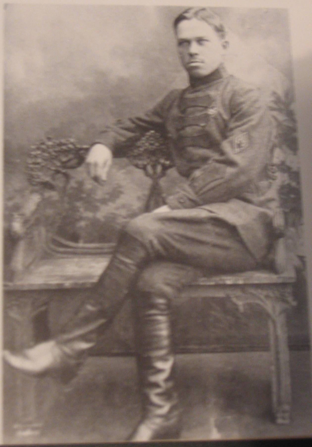 Finnish red officer Emil Vaateri.